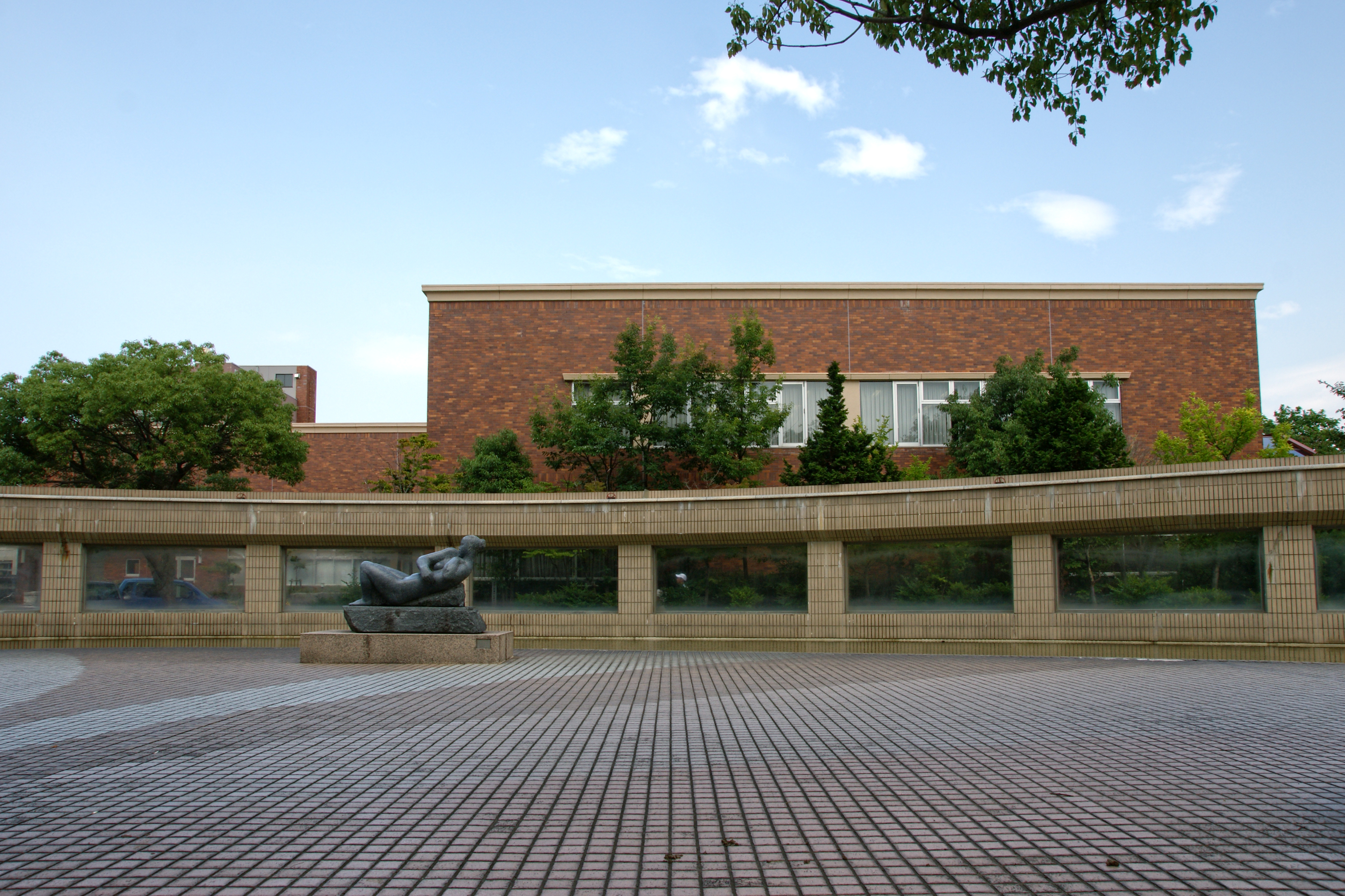 Library_of_Yonago_City in Yonago, Tottori prefecture, Japan.